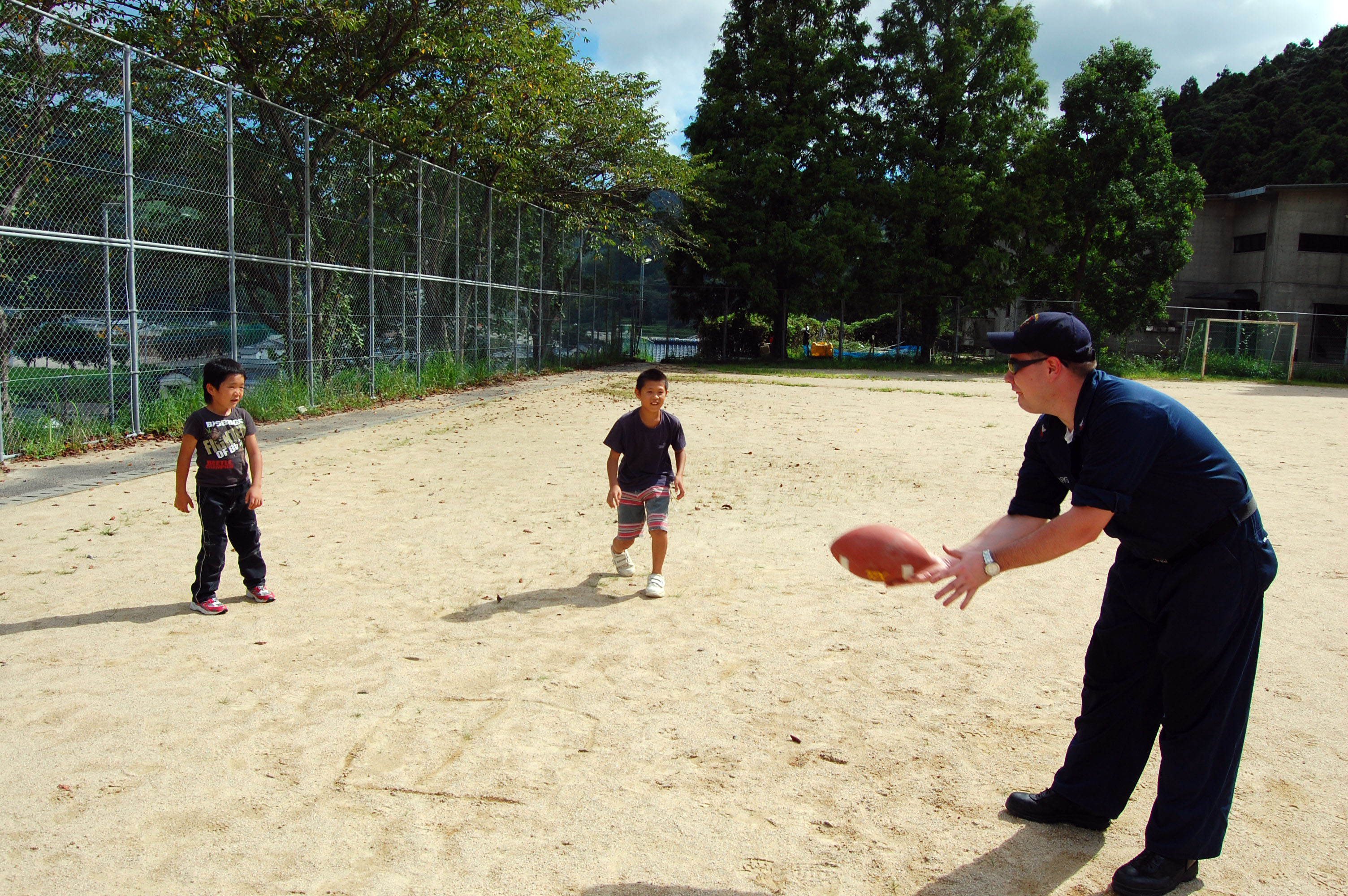 SASEBO, Japan (Aug. 26, 2007) - Hull Maintenance Technician 1st Class Jamey K. Parks, assigned to USS Juneau (LPD 10), plays catch with kids at the Tenshin-ryo Children's Home. Sailors renovated the home's playground and donated toys to the children. Visits such as this one help build relations between the U.S. Navy and the community within the ship’s host nation of Japan. U.S. Navy photo by Mass Communication Specialist 2nd Class Adam R. Cole (RELEASED)